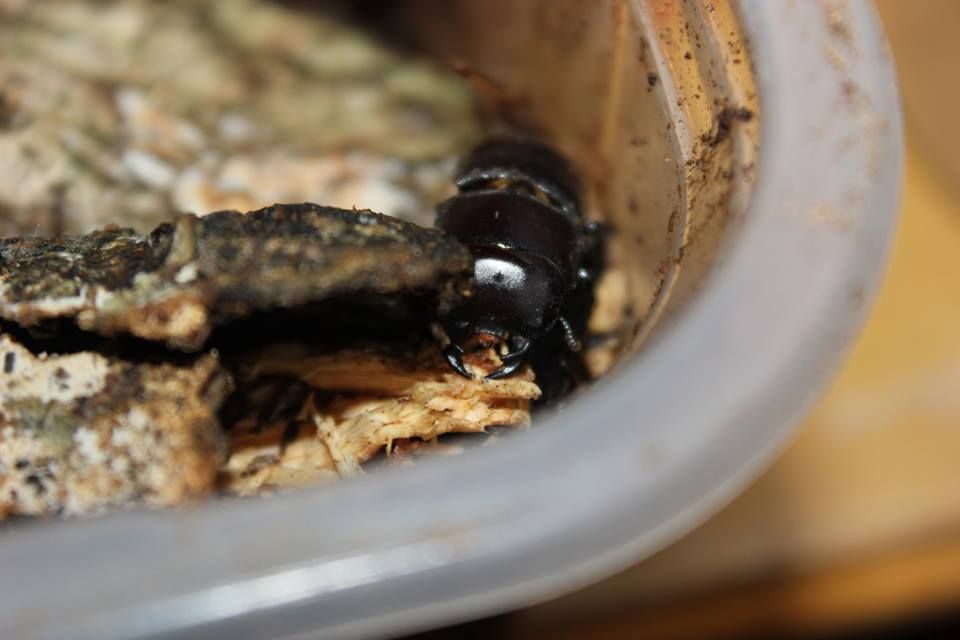 Mating. North Carolina.